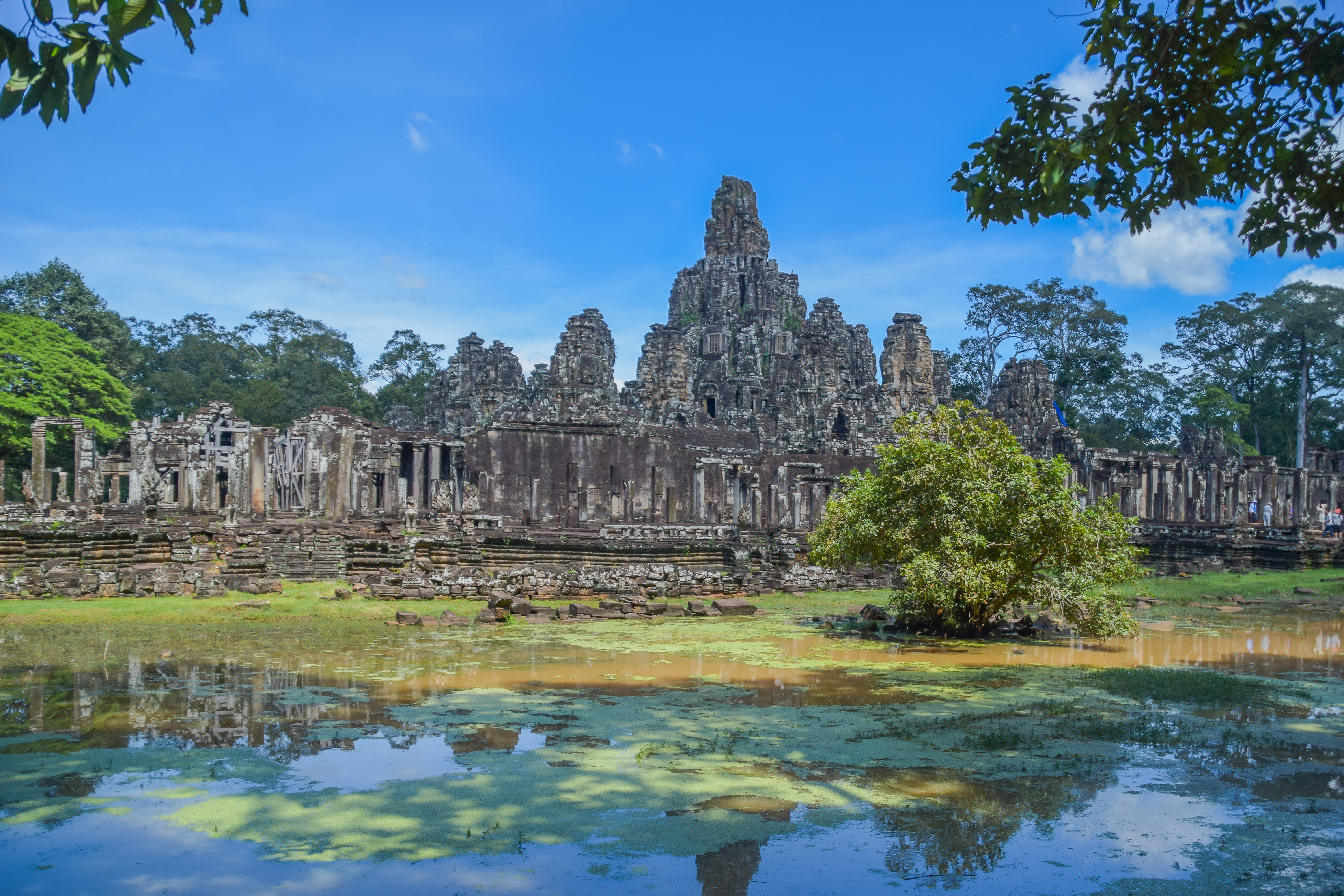 Bayon temple in Angkor Thom, Siem Reap Province, Cambodia